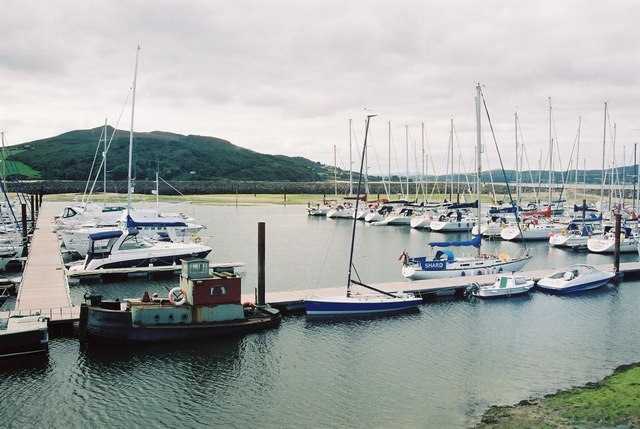 Fahan Marina, Inishowen.